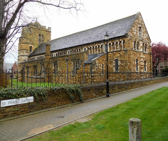 St Peter's parish church, Mare Fair, Northampton, seen from the southeast